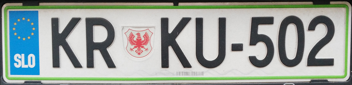 Slovenian license plate with KR code and the coat of arms of Kranj.